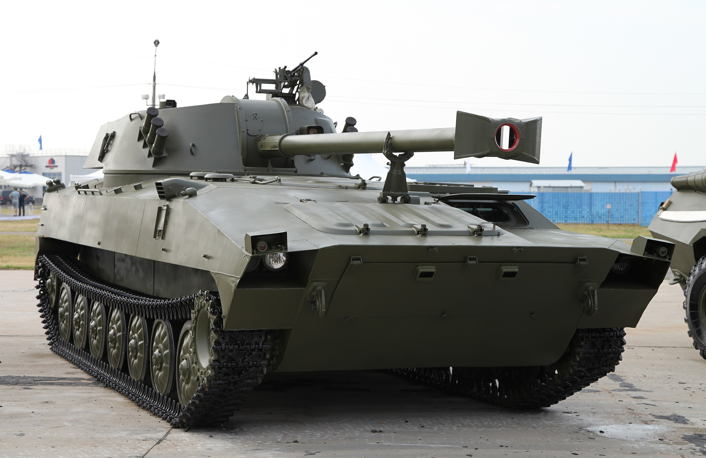 2S34 "Khosta" self-propelled howitzer-mortar at "Engineering Technologies 2014" forum